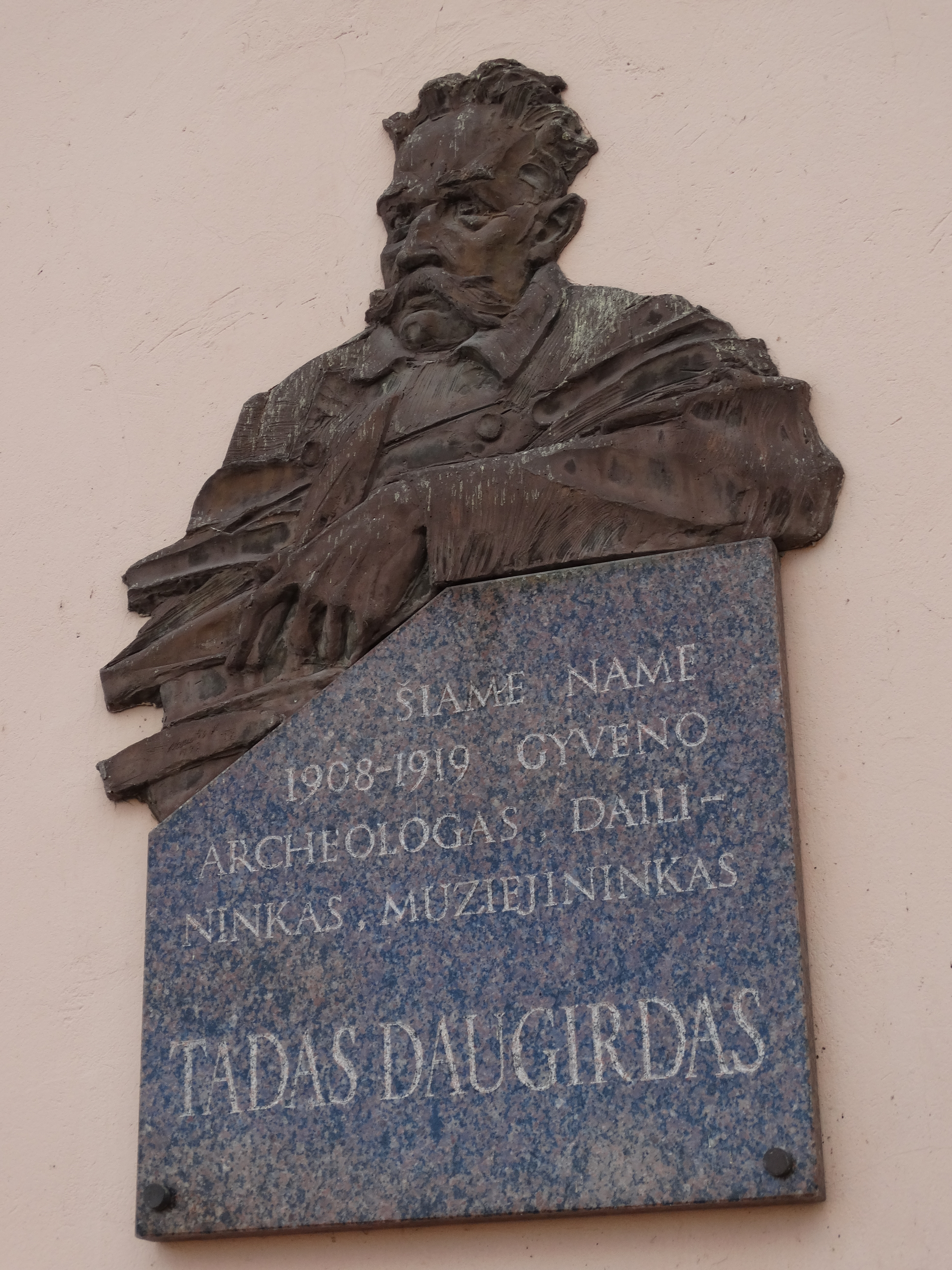 Memorial plaque to Tadeusz Dowgird, Rotušės a., Kaunas, Lithuania